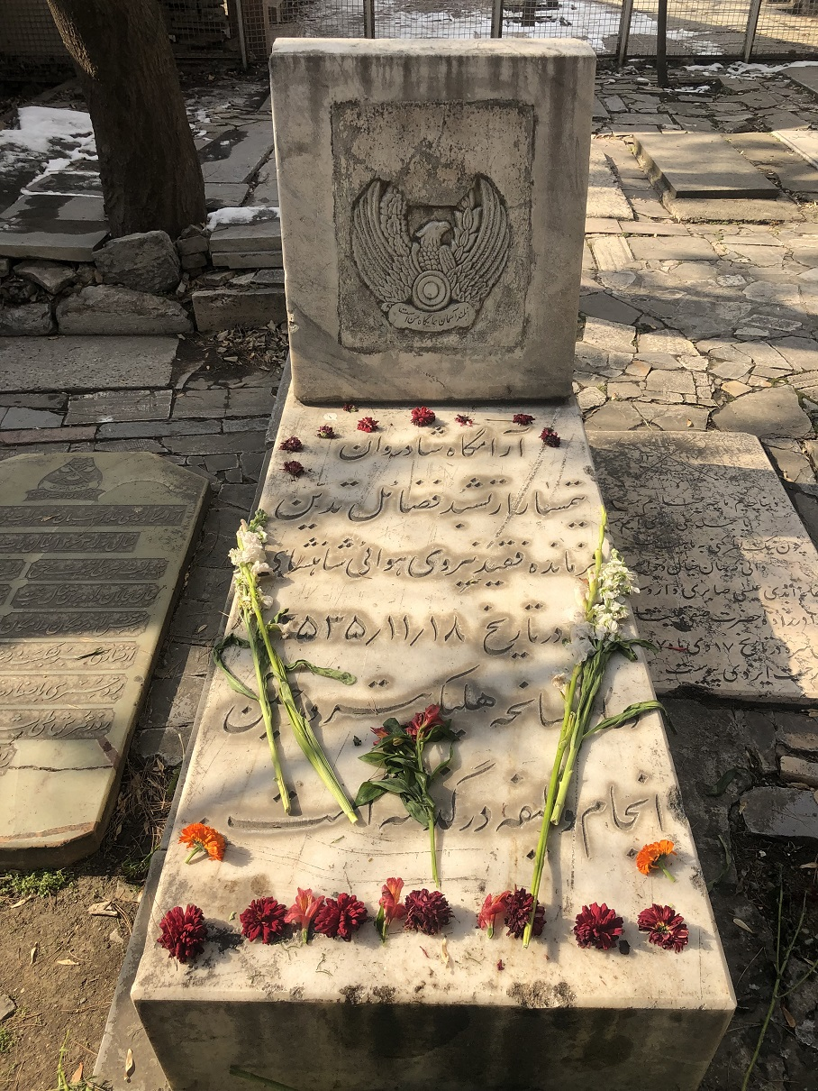 Zahir-od-Dowleh Cemetery